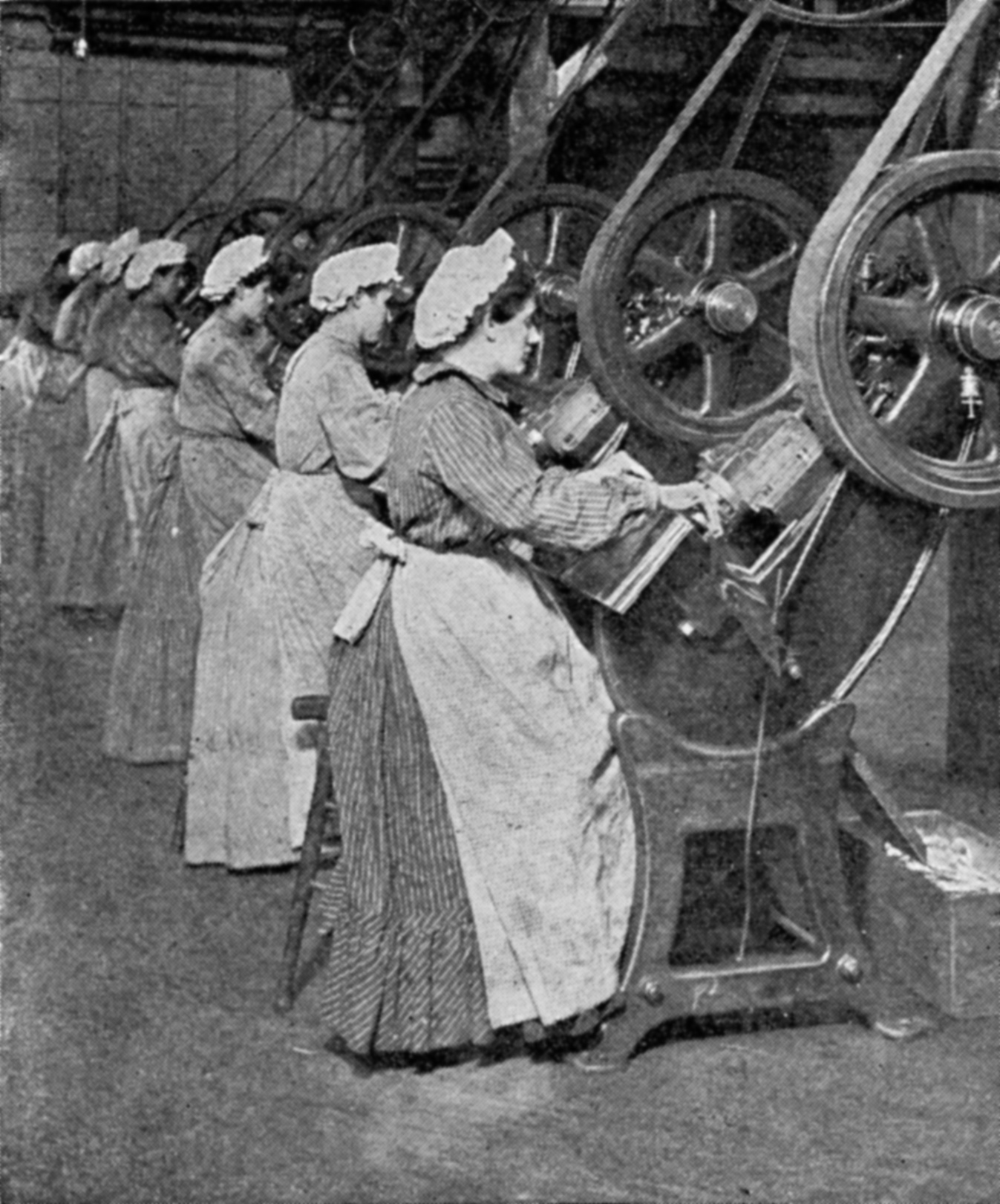 Female workers in an H. J. Heinz can factory stamping out end discs (the discs that fit on either end of each can). From the materials for the Alaska-Yukon-Pacific Exposition of 1909, held in Seattle.